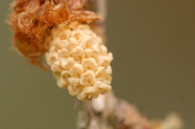 Larix decidua from Commanster, Belgian High Ardennes .